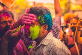 The free high-resolution photo of adults, celebration, ceremony, colorful, crowd, culture, festival, fun, group, holi, india, paint, parade, party, people, performance, religion, street, wear , taken with an unknown camera 10/02 2018 The picture taken with The image is released free of copyrights under Creative Commons CC0.